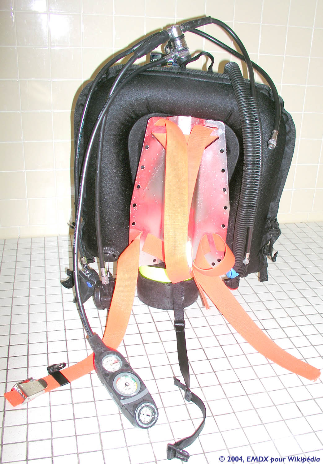 SCUBA backpack with backplate and wings buoyancy compensator